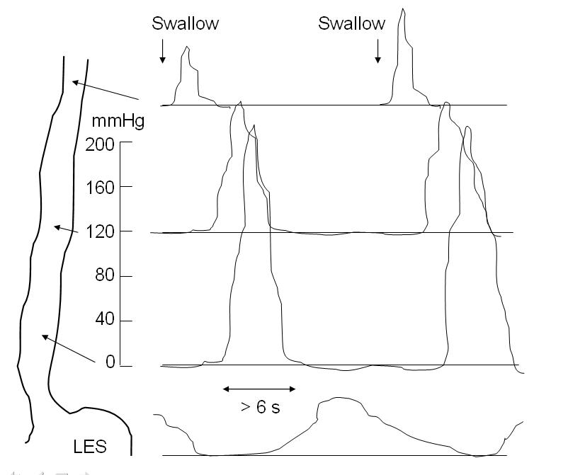 Diagram of esophageal motility study for nutcracker esophagus. The image on the left is a schematic of the esophagus and three pressure recordings are taken: at the upper esophagus, lower esophagus and lower esophageal sphincter. The graph at the top indicates the time of two swallows. The disorder is peristaltic, with high pressure esophageal contractions exceeding 180 mmHg. The contractile waves have a long duration exceeding 6 seconds. -- Samir धर्म 09:00, 11 September 2006 (UTC)